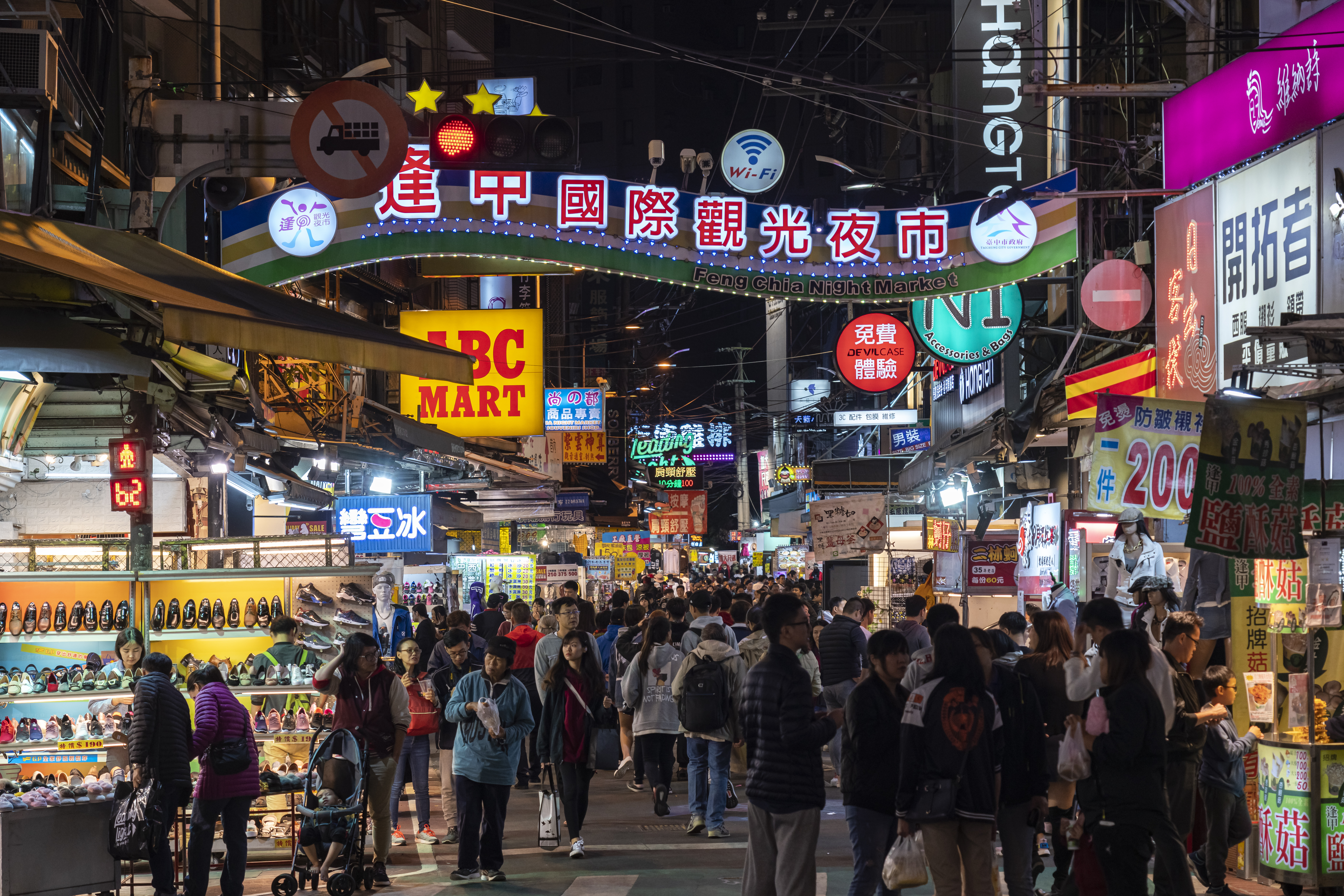 fengjia night market taichung 2019